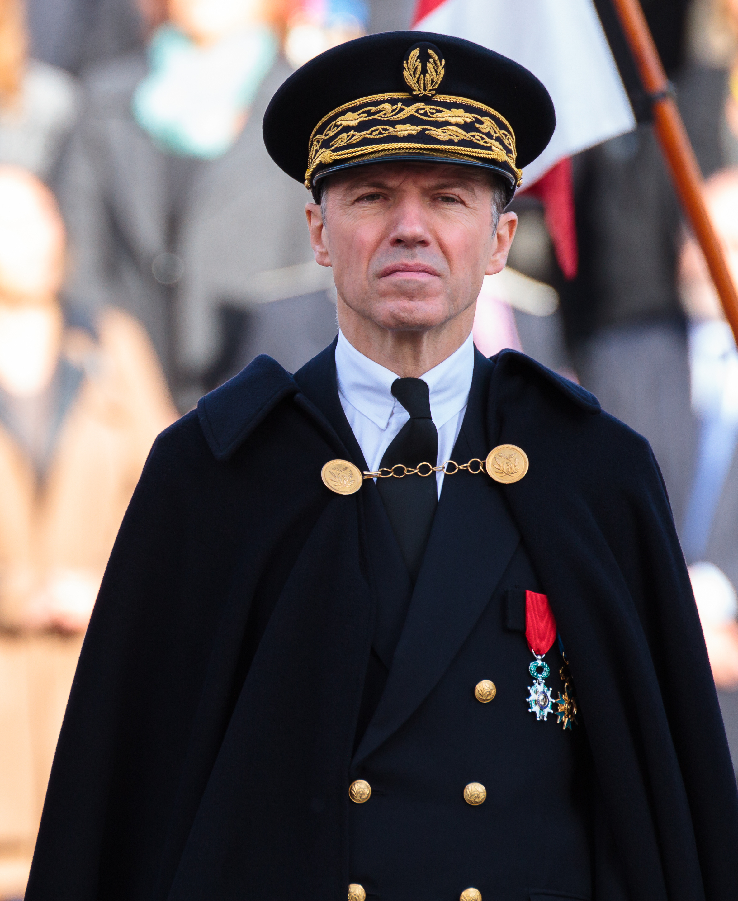 Cropped image of Pascal Mailhos, Prefect of Haute-Garonne department and of Midi-Pyrénées region, during November 11th ceremony in Toulouse, in 2014